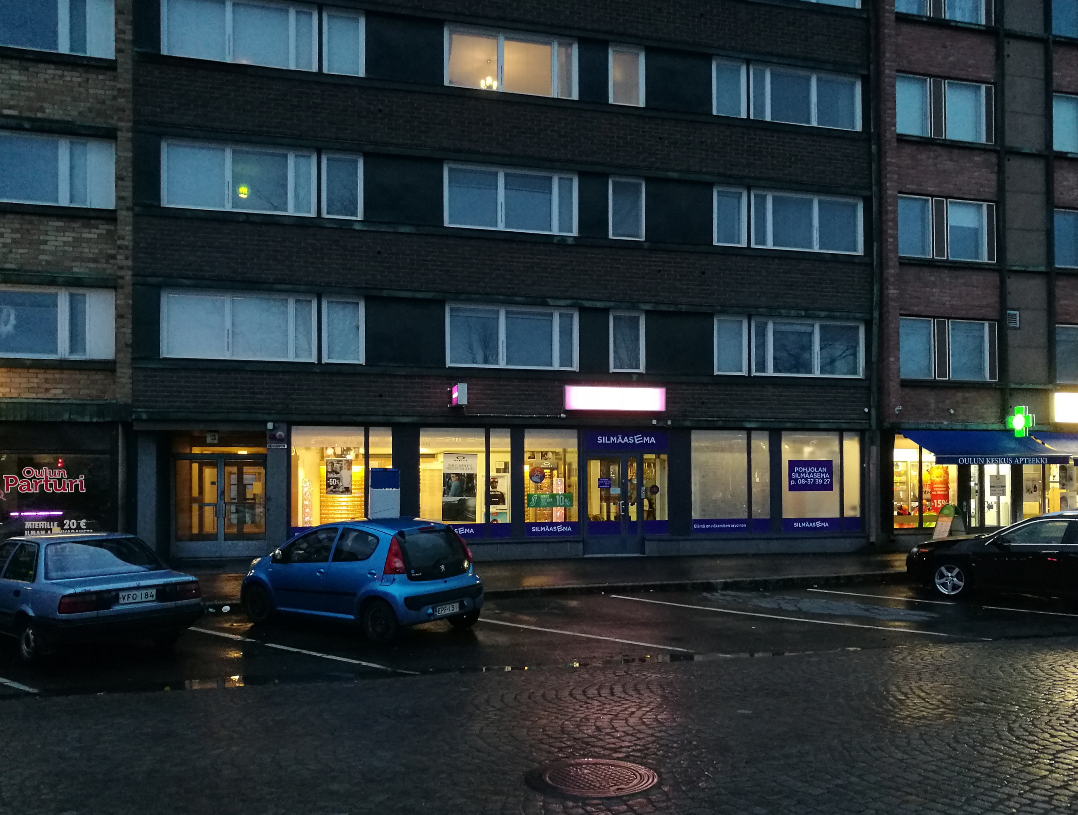 The SIlmäasema optician shop at the Isokatu street in Oulu.